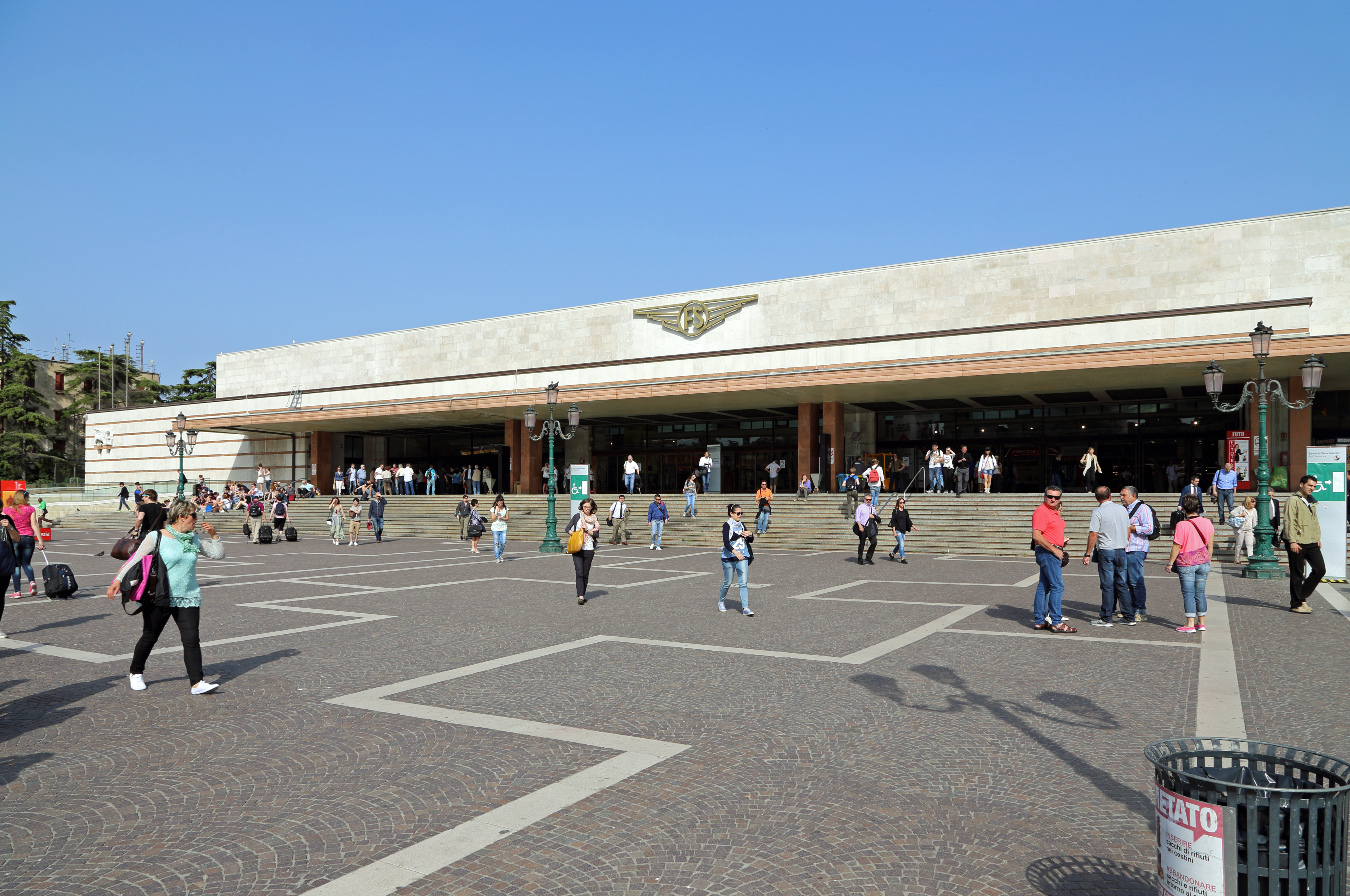 Venice (Italy): Santa Lucia train station